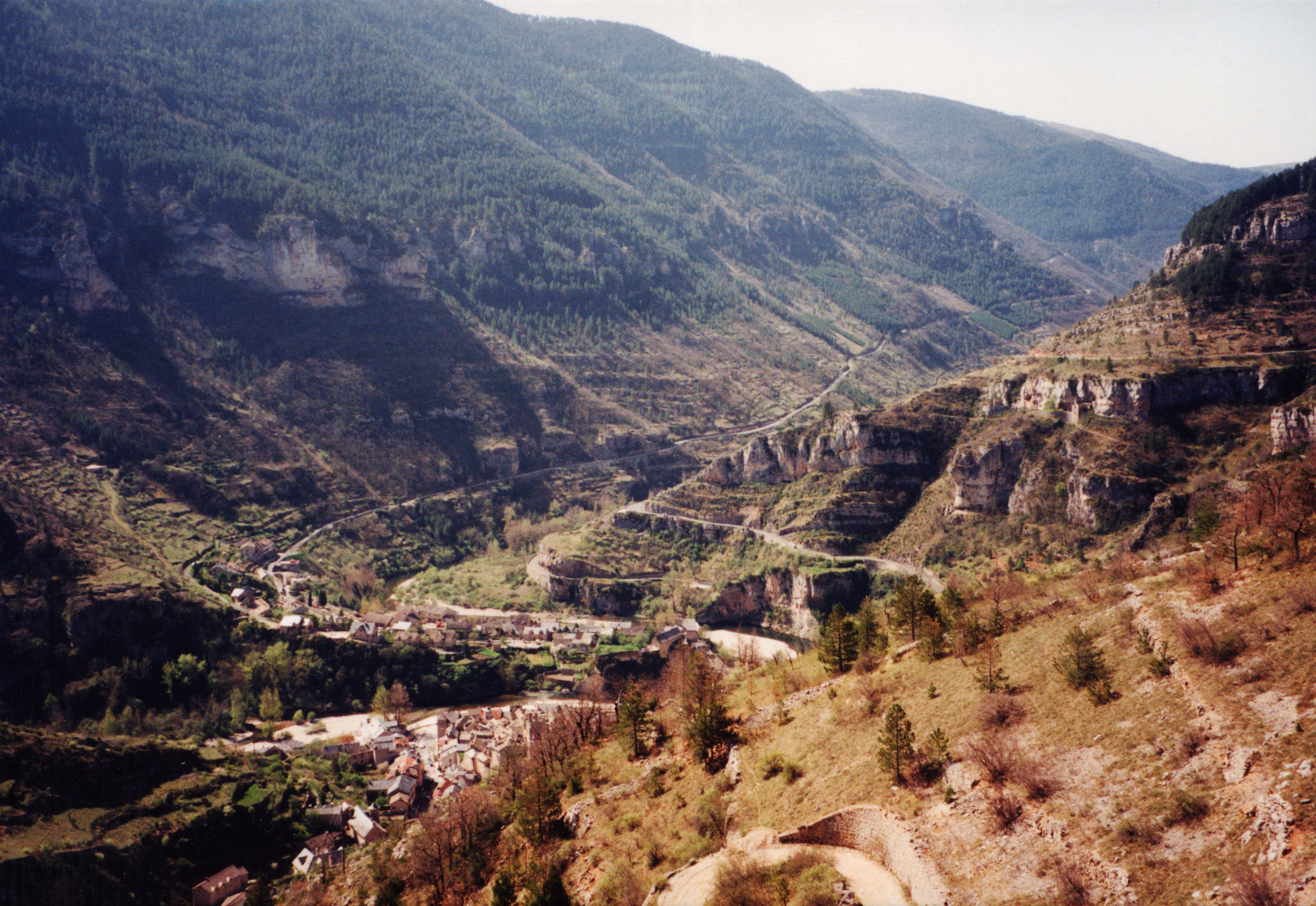 Gorge du Tarn avec Sainte Enimie, Lozère, France from the street from the Causse de Sauveterre heading SSW. On the left the slope of the Causse Méjean.